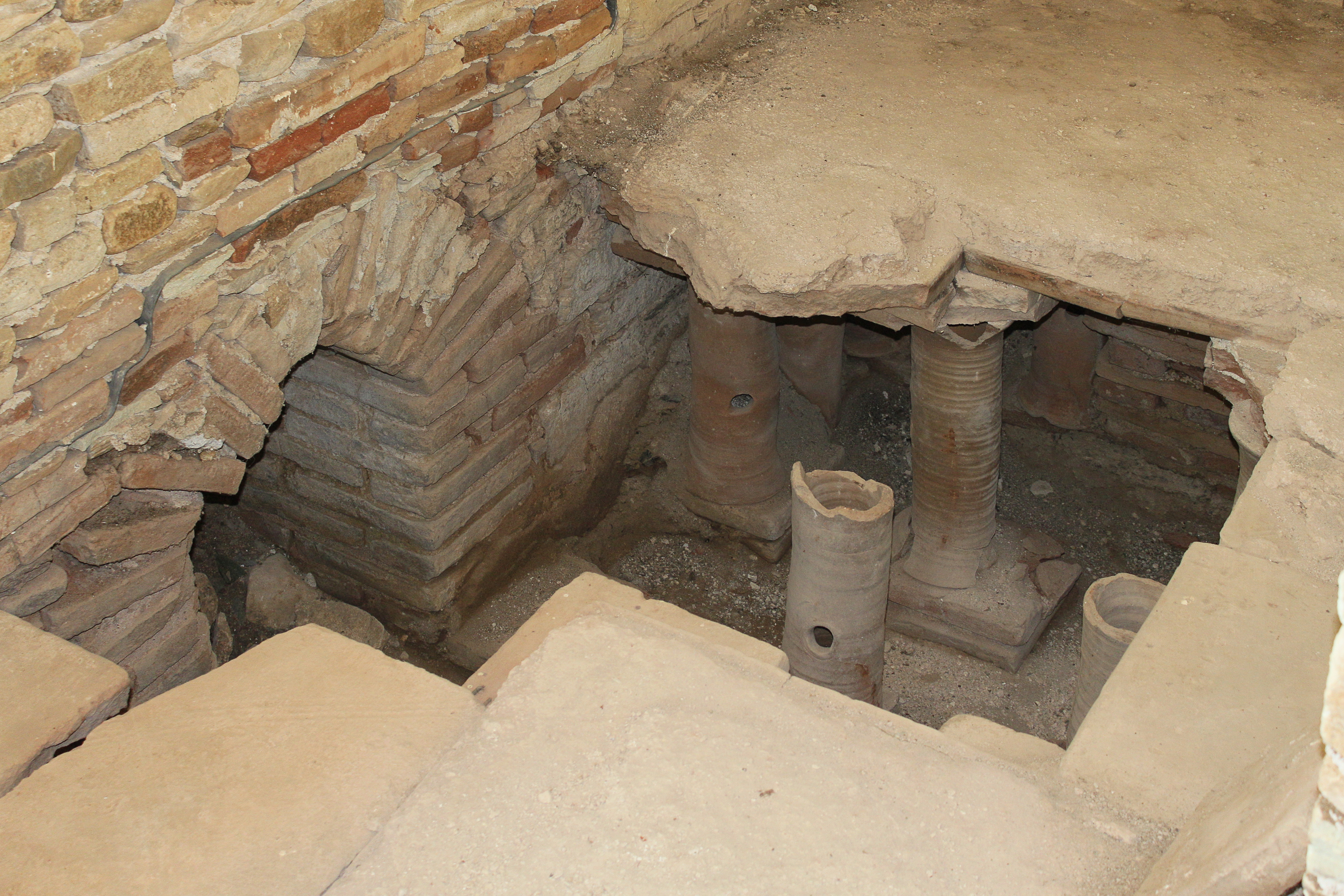 Villa Armira, in the Rhodope Mountains, Bulgaria